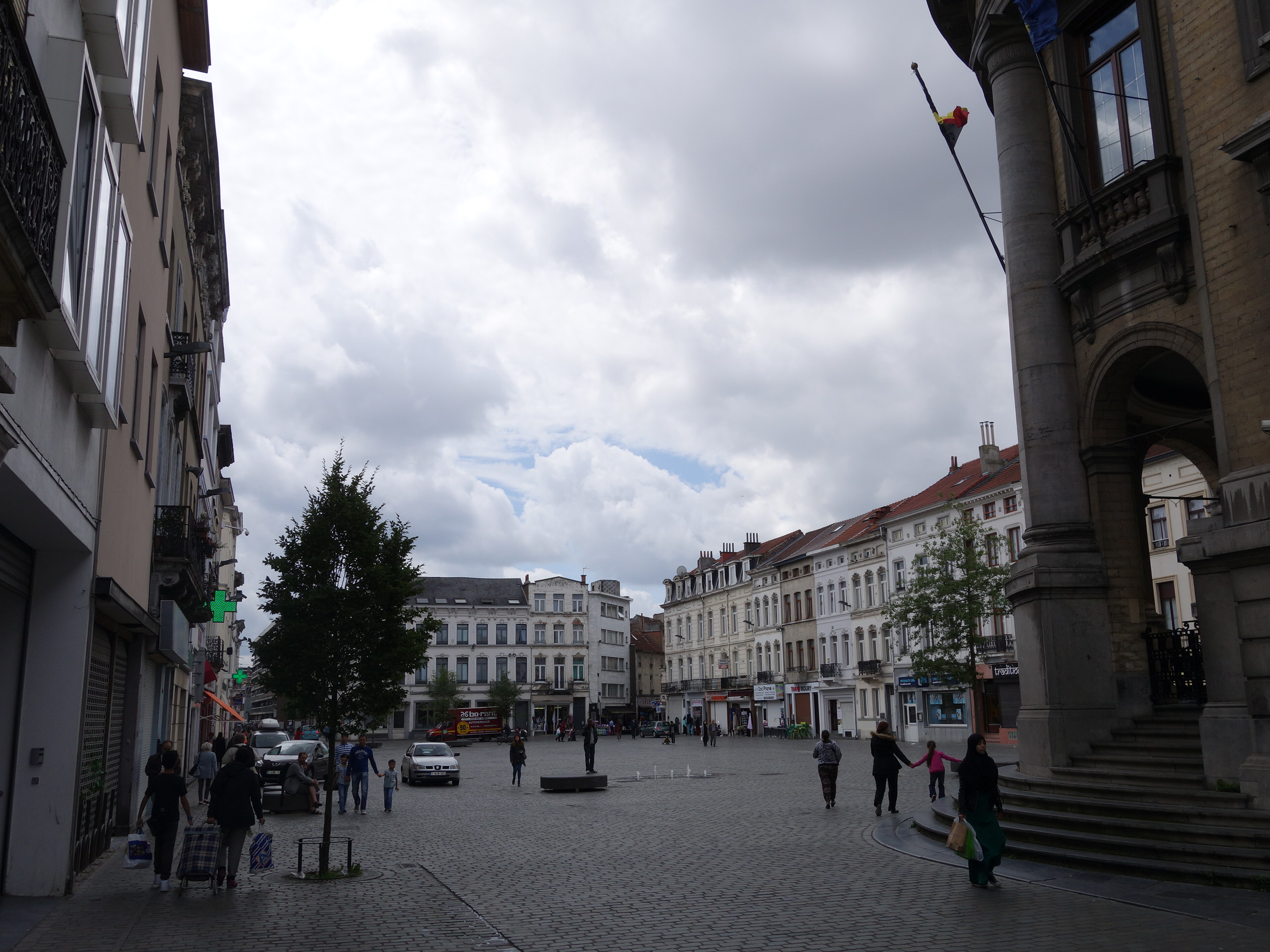 Place Communale / Gemeenteplaats in Molenbeek, Brussels